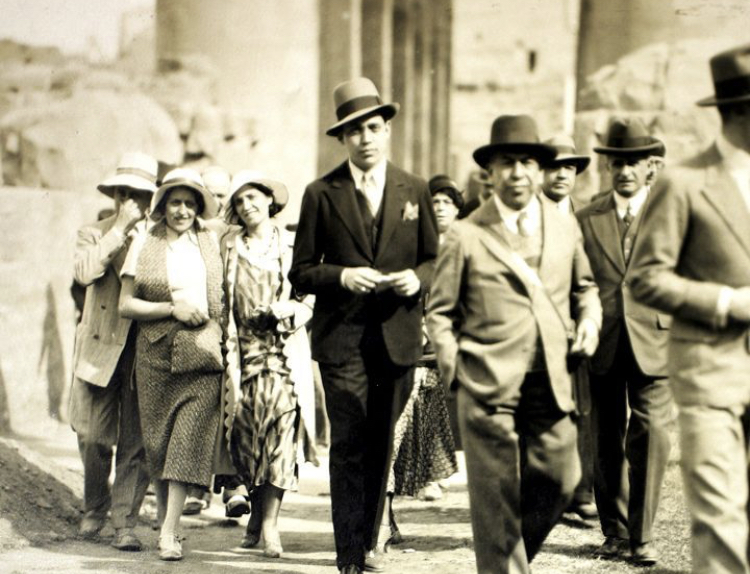 Venezuelan writer Arturo Uslar Pietri during his visit to Egypt in 1931.